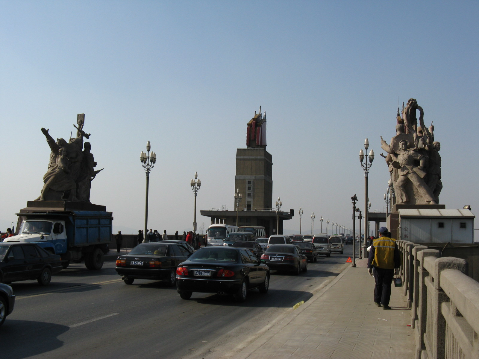 Nanjing Yangtze Bridge